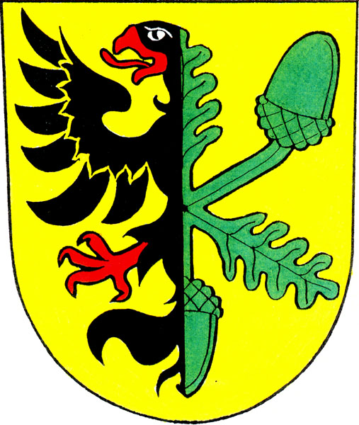 Municipal coat of arms of Šilheřovice village, Opava District, Czech Republic.